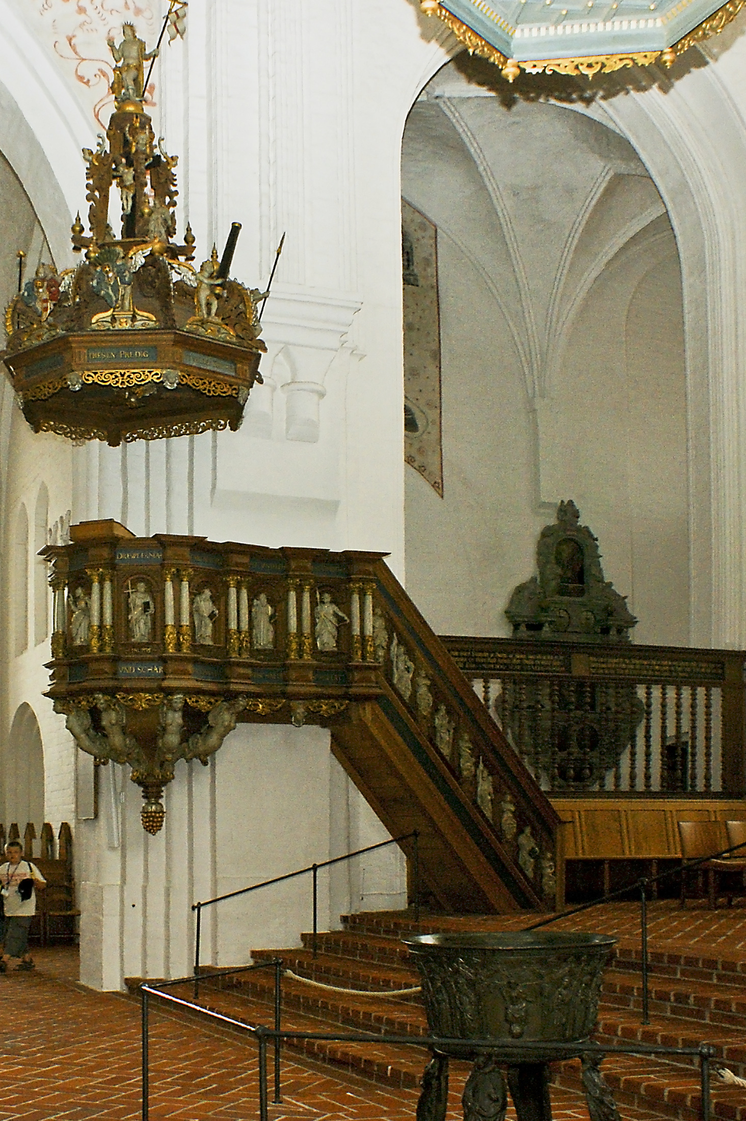 Interior from Cathedral in Haderslev, Denmark